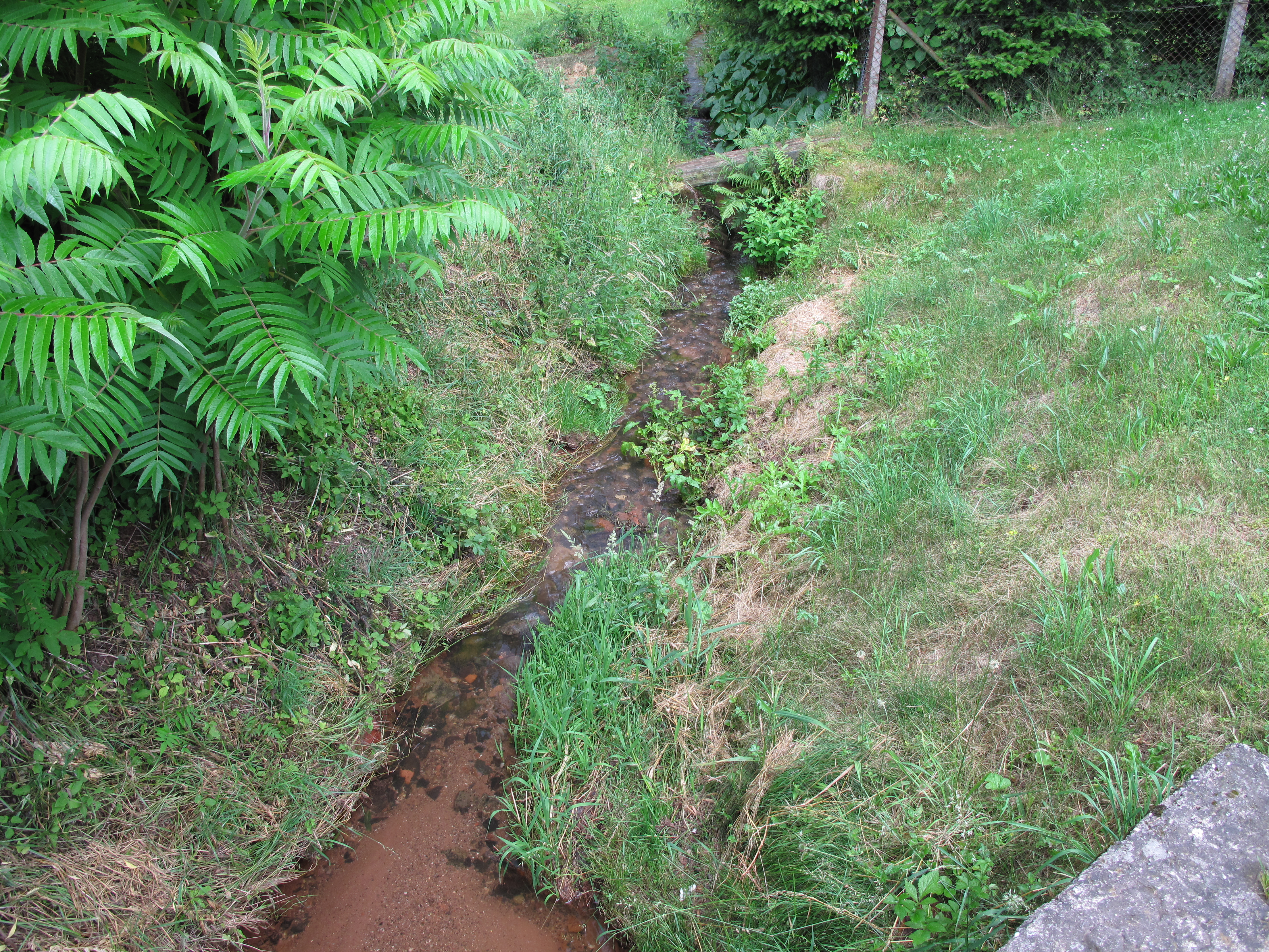 Úlibický potok (stream) in Štěpanice village, Jičín District, Czech Republic.